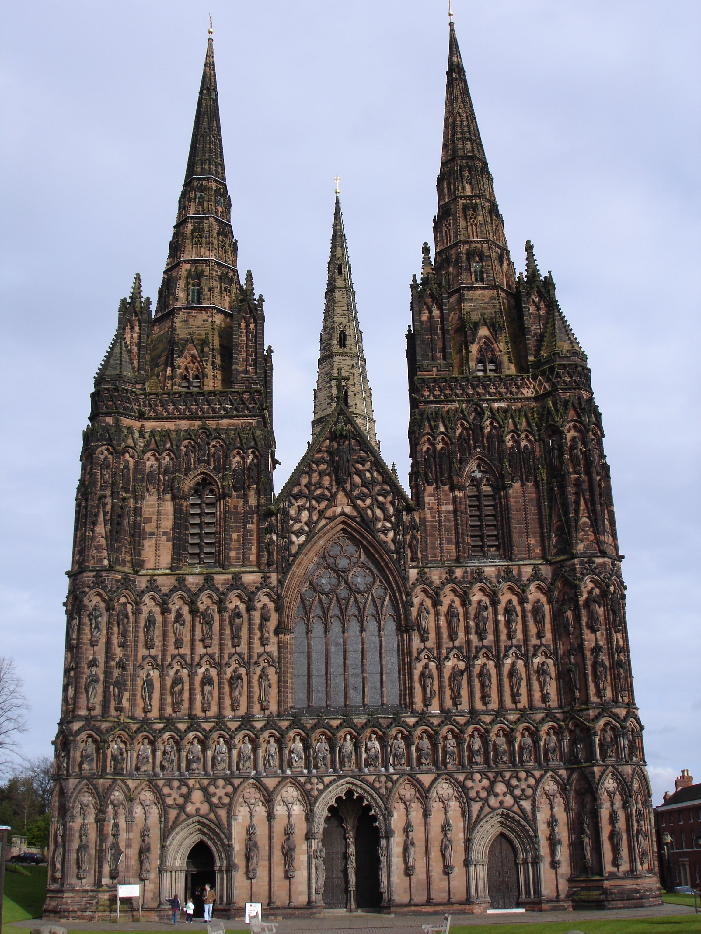 Picture released into public domain by author - Feb 2006